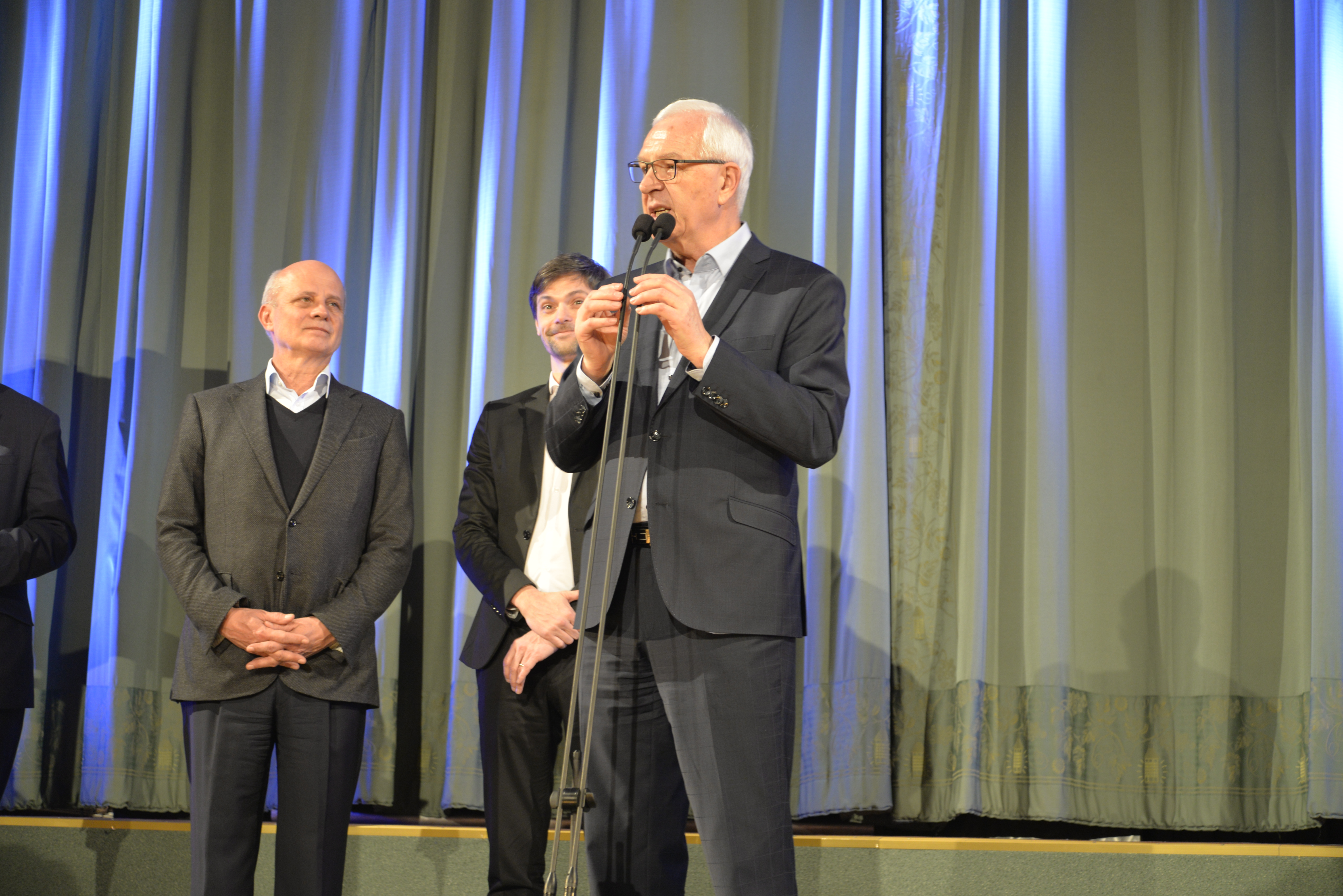 Final part of presidential campaign of Jiří Drahoš in Lucerna Cinema